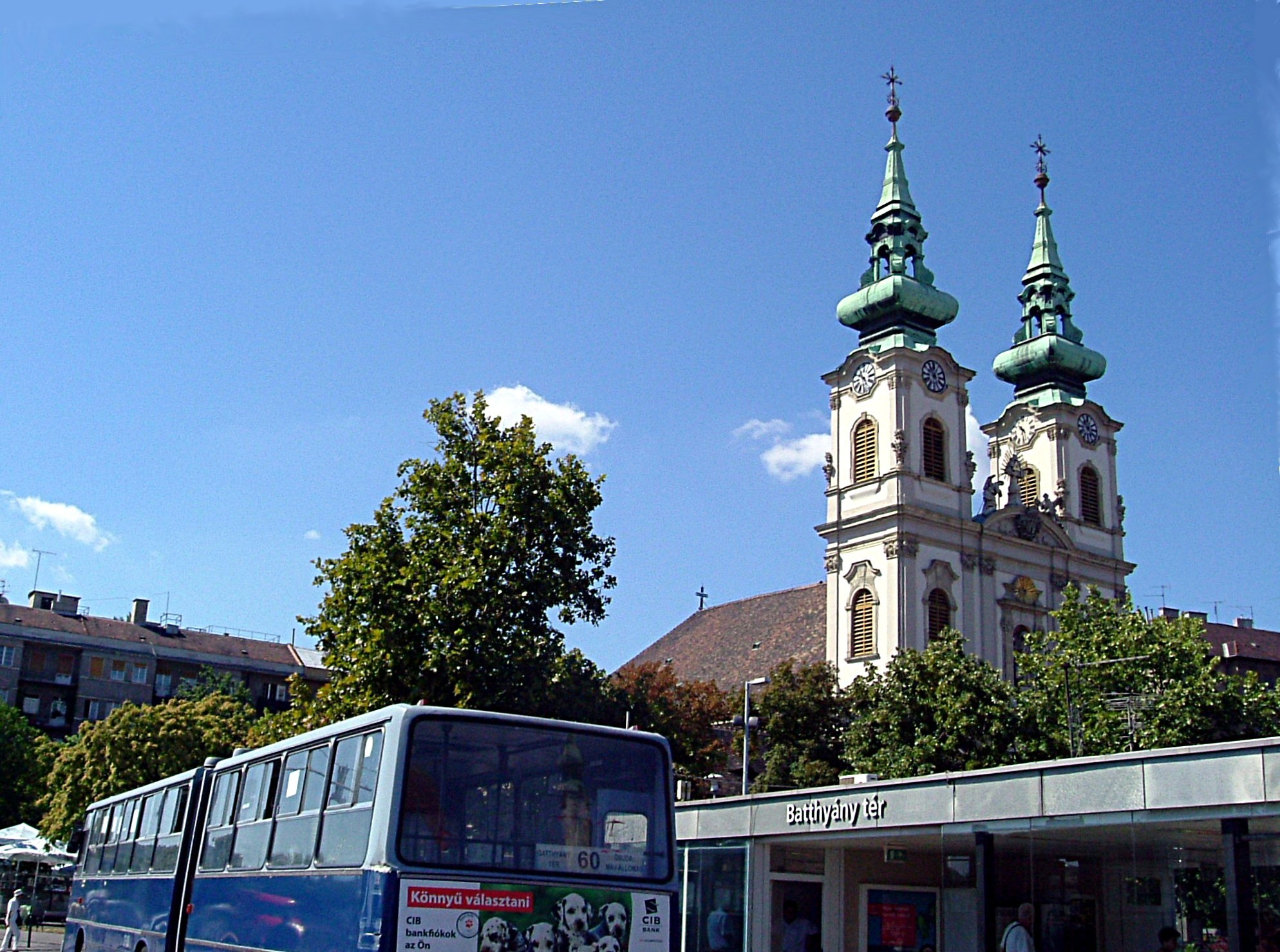 Batthyány tér, Budapest